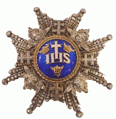 Star of the Order of the Serafims